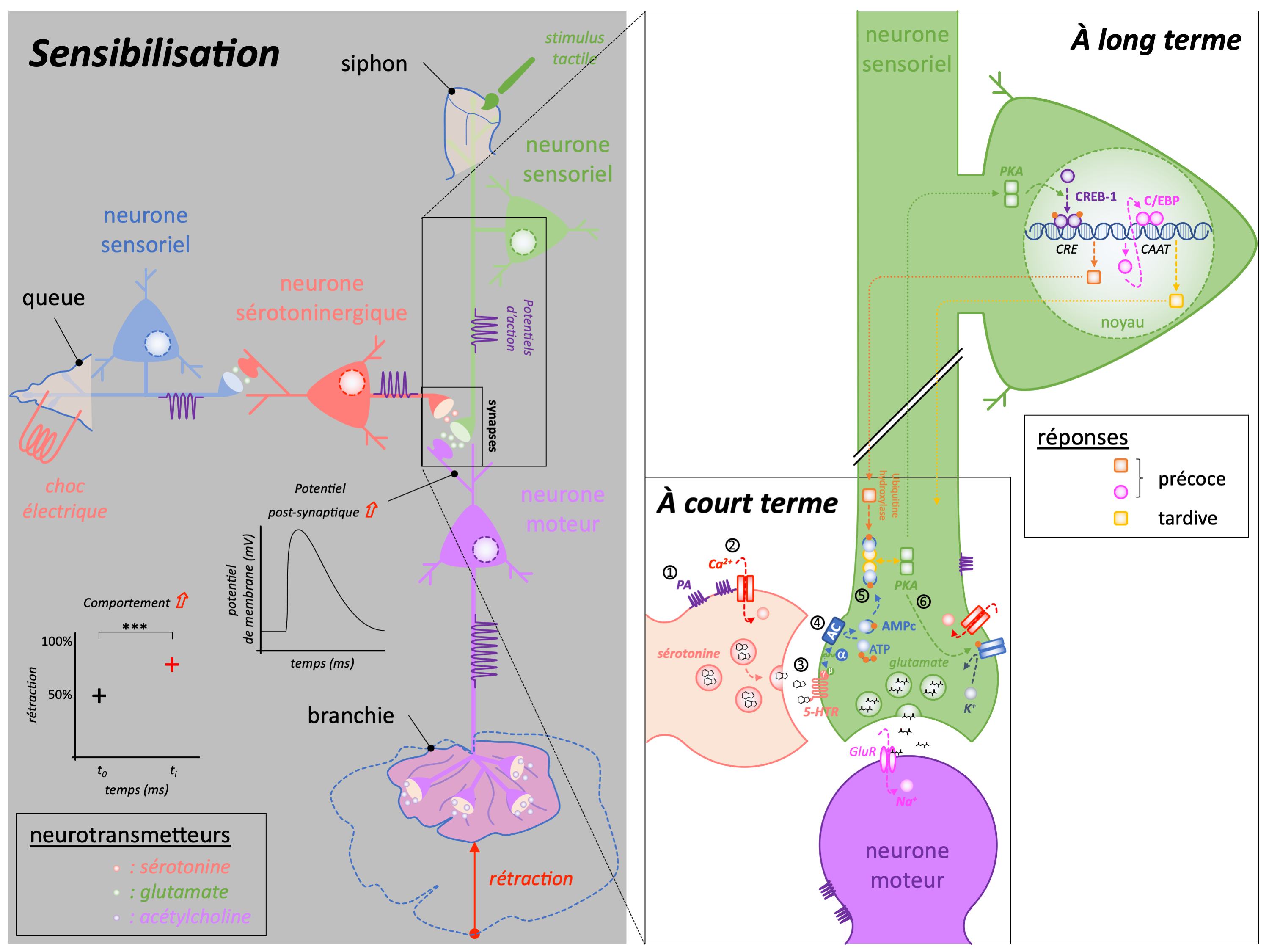 Schematic representation of sensitization of the gill withdrawal reflex in Aplysia californica. This work is adapted from E. Kandel's 2001 paper in Science (PMID:11691980).